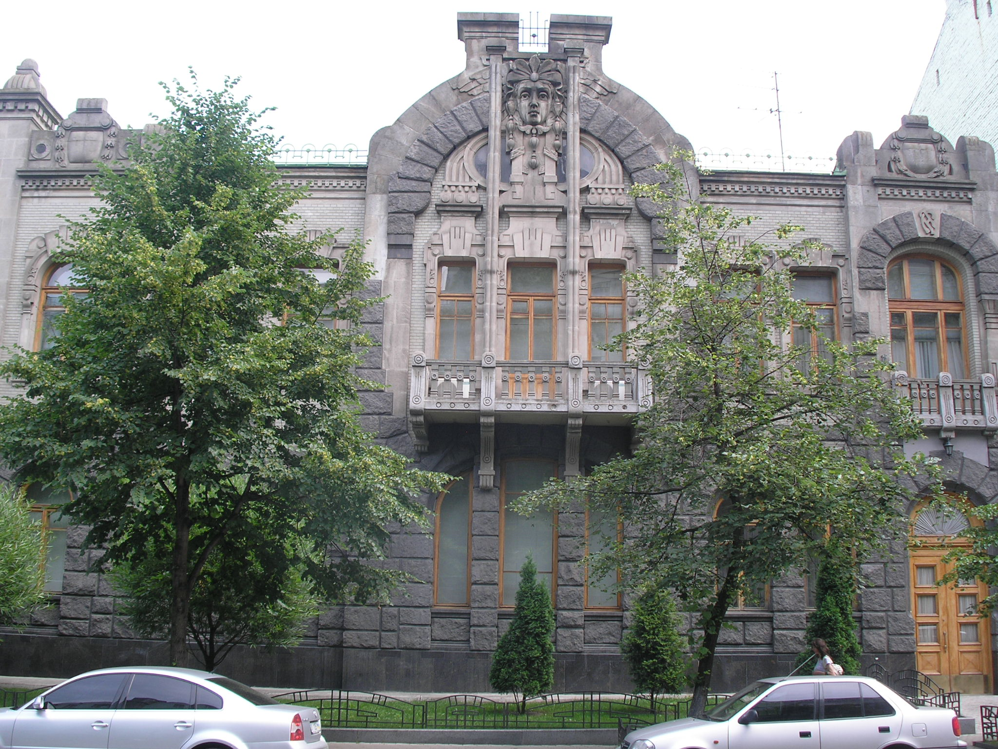 The front façade of the House of the Weeping Widow in Kiev, Ukraine.